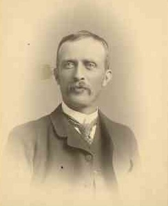 Depicted person: Henry Yorke Lyell Brown – Australian geologist, Government Geologist of South Australia (1882 to 1912)